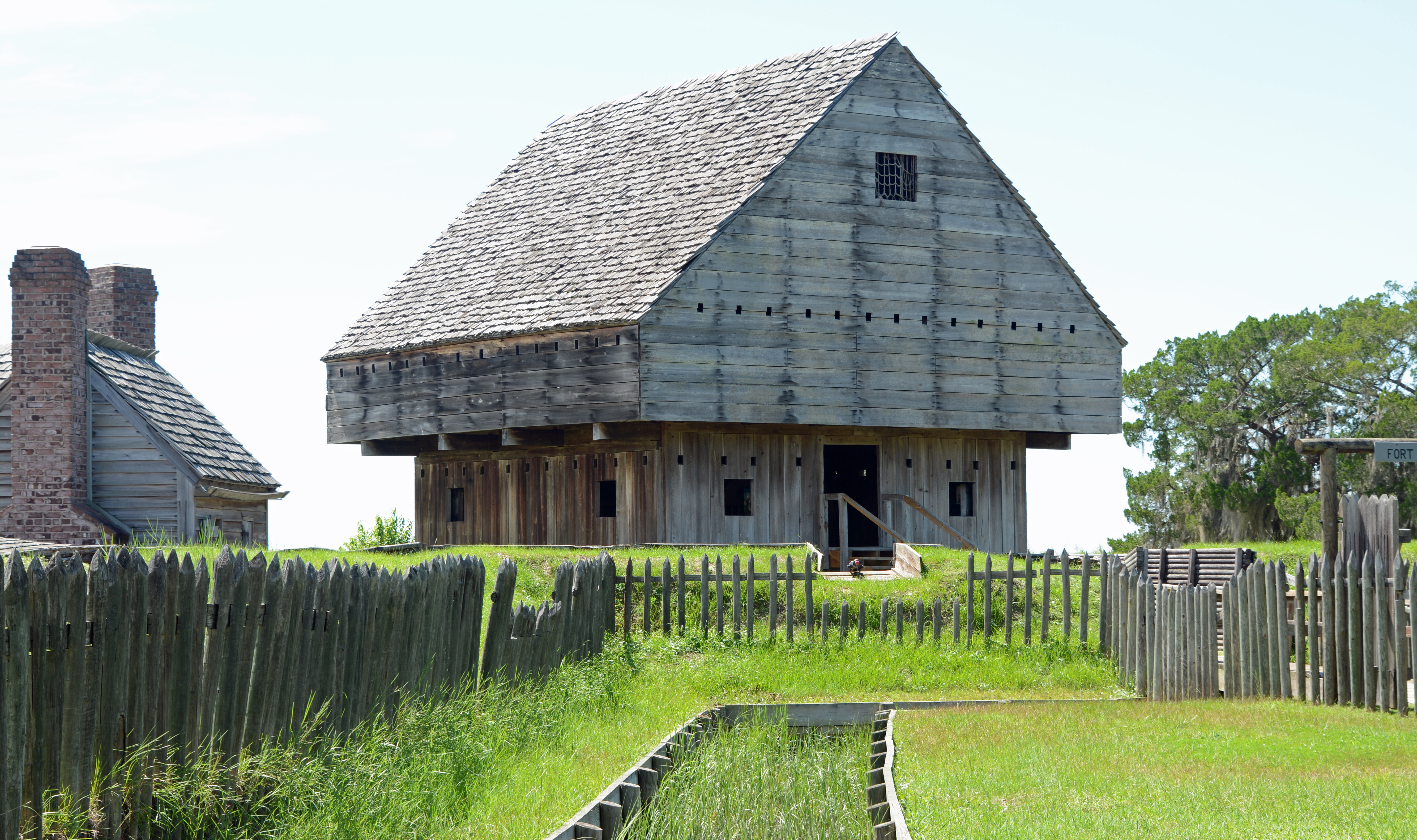 The front of Fort King George, in McIntosh County, Georgia, US